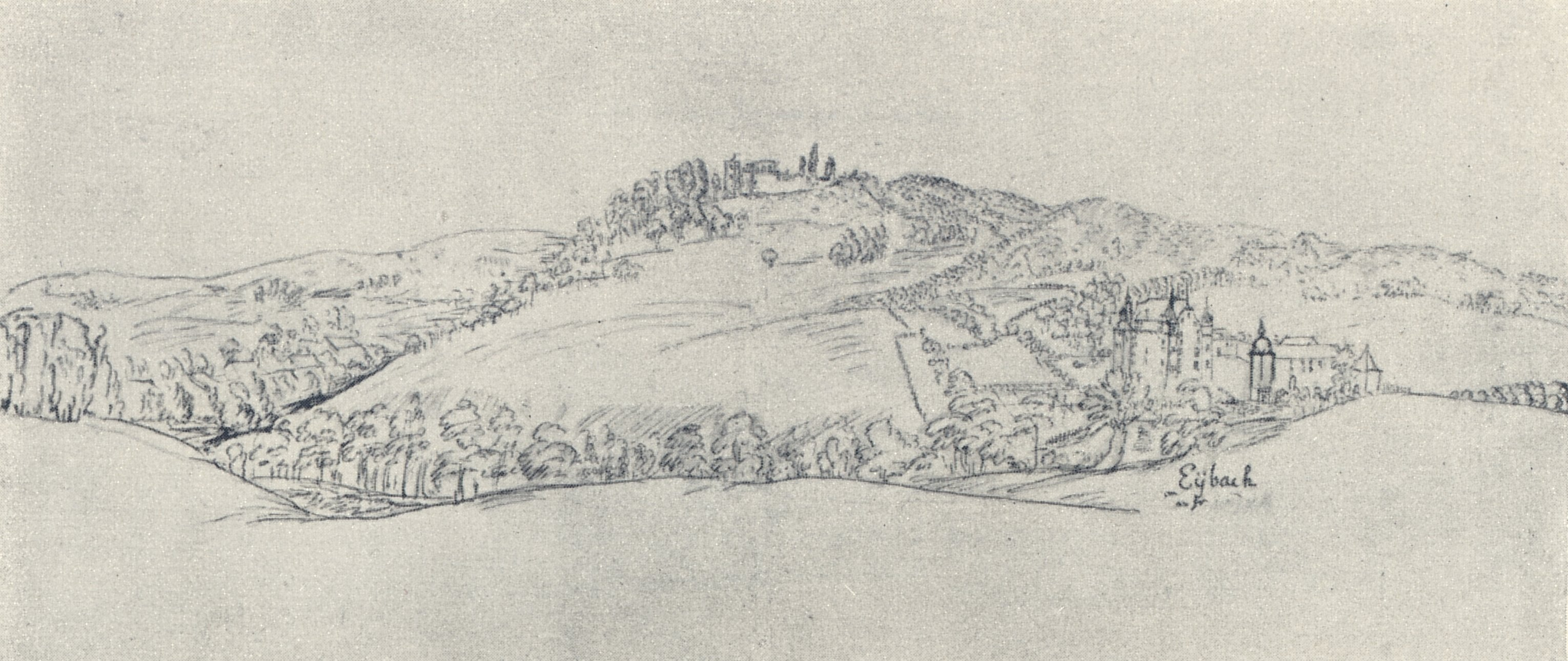 The ruines of Eibach Castle and Neuenberg Castle, North Rhine-Westphalia.